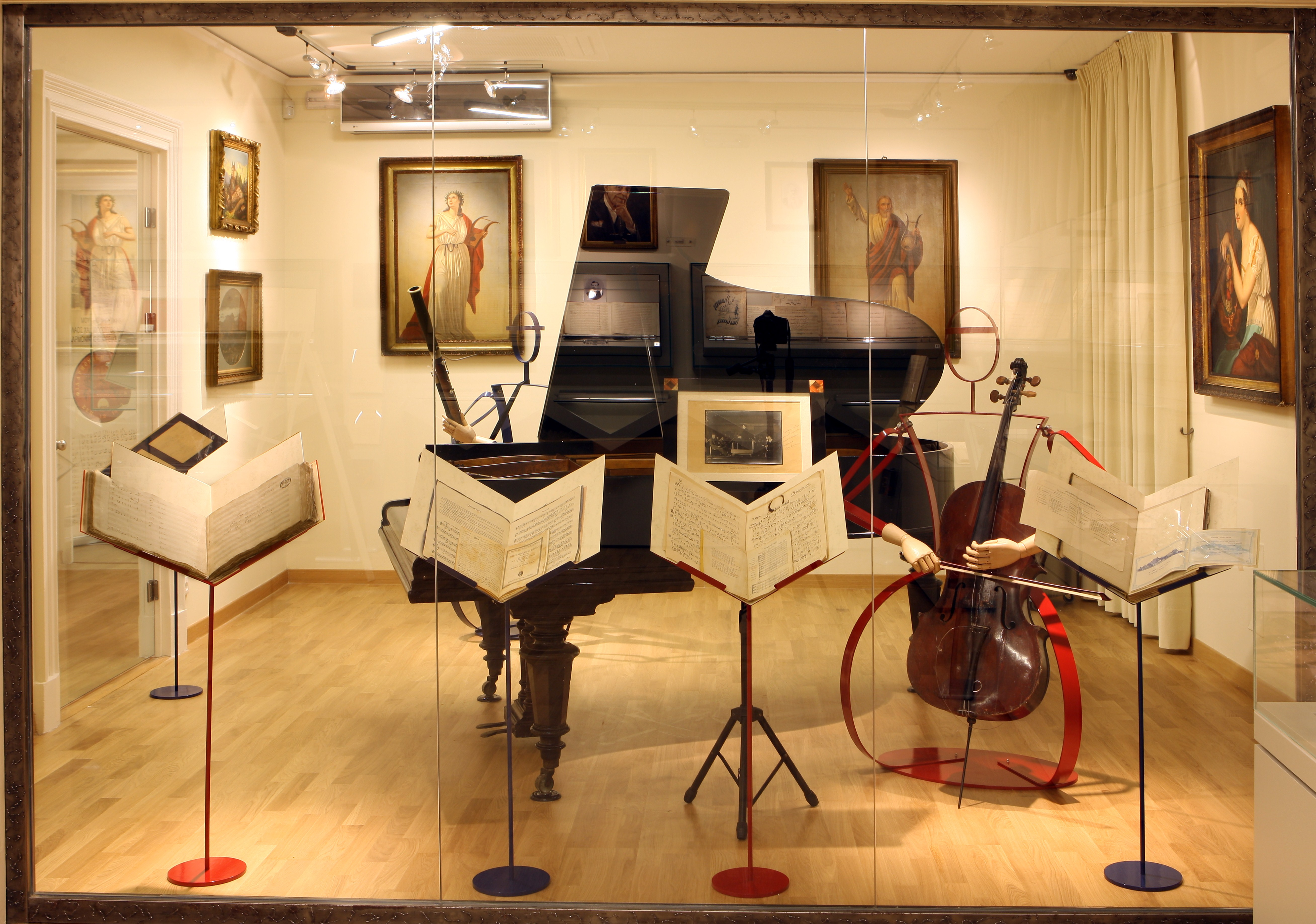 Photograph of Section III of the Music Museum of the Corfu Philharmonic Society